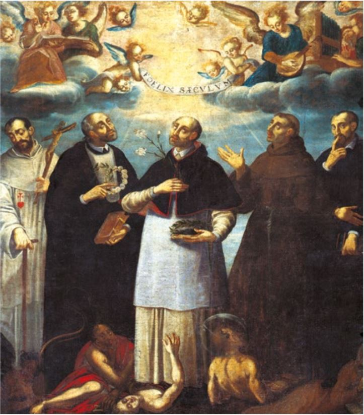 Faelix Saeculum Cracoviae: painting of five holy men who lived in Kraków in the 15th century (from left): Michał Giedroyć (with a crucifix and a crutch symbolizing his disability; he steps on a devil, a symbol of temptation) John Cantius (with a book, holding a wreath of laurels and roses; he steps on symbols of wealth) Stanisław Kazimierczyk (with a lily, book, and wreath of laurels; he steps on symbols of pleasure) Szymon of Lipnica (looks adoringly to the sky; he steps on a naked figure with its head in a glass bowl, a symbol of constant changes) Świętosław Milczący (with a finger on his lips and a book; he steps on a figure symbolizing false devotion and hypocrisy It hangs in the Corpus Christi Church in Kraków. Source for description: Giniūnienė, Asta (2004). "Dievo tarno Mykolo Giedraičio ikonografija". Acta Academiae Artium Vilnensis 35. Pirmavaizdis ir kartotė: Vaizdinių transformacijos tyrimai: 130–131. ISSN 1392-0316.